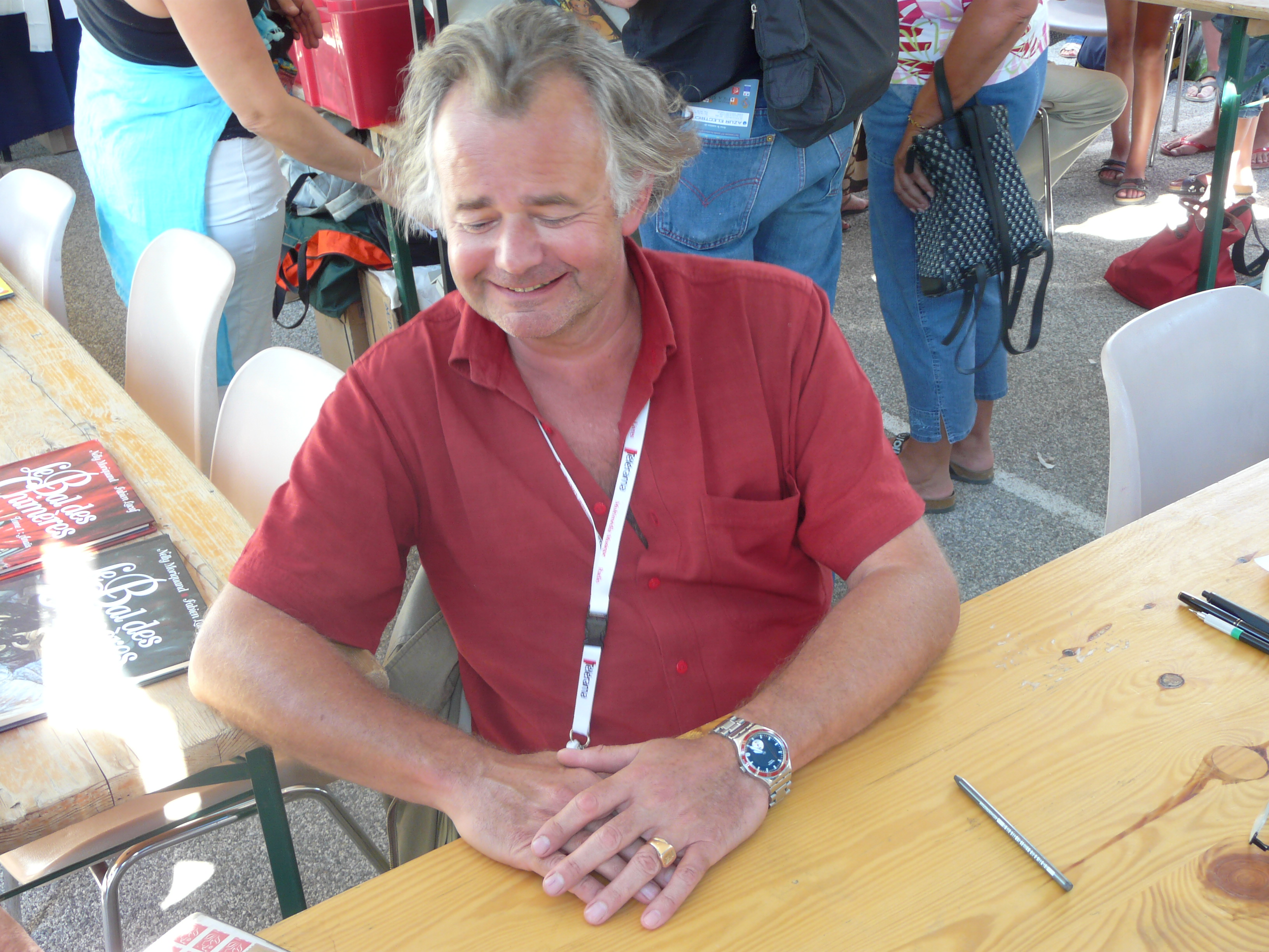 Photographs taken during the International Comic Festival of Sollies Ville, France